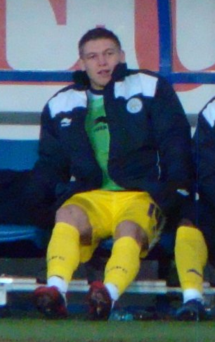 Image of Martyn Waghorn